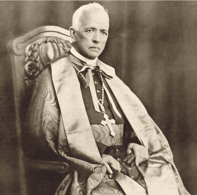 Joaquim Arcoverde de Albuquerque Cavalcanti (January 17, 1850 – April 18, 1930) was the first Cardinal to be born in Latin America.